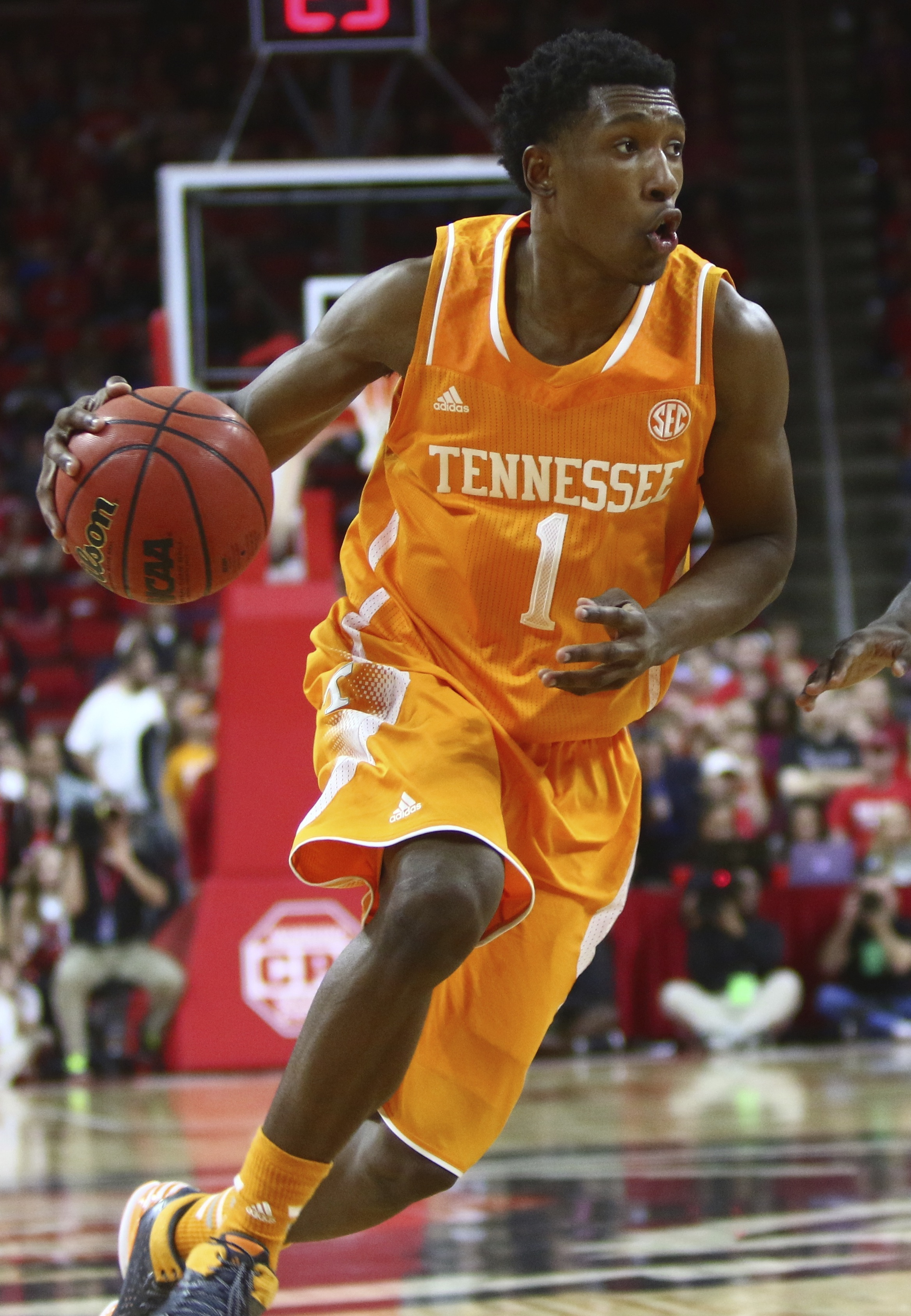 Josh Richardson (1) drives against Desmond Lee (5). NC State hosted Tennessee on December 17, 2014 at the PNC Arena in Raleigh, North Carolina. (Jerome Carpenter/WRAL Contributor)